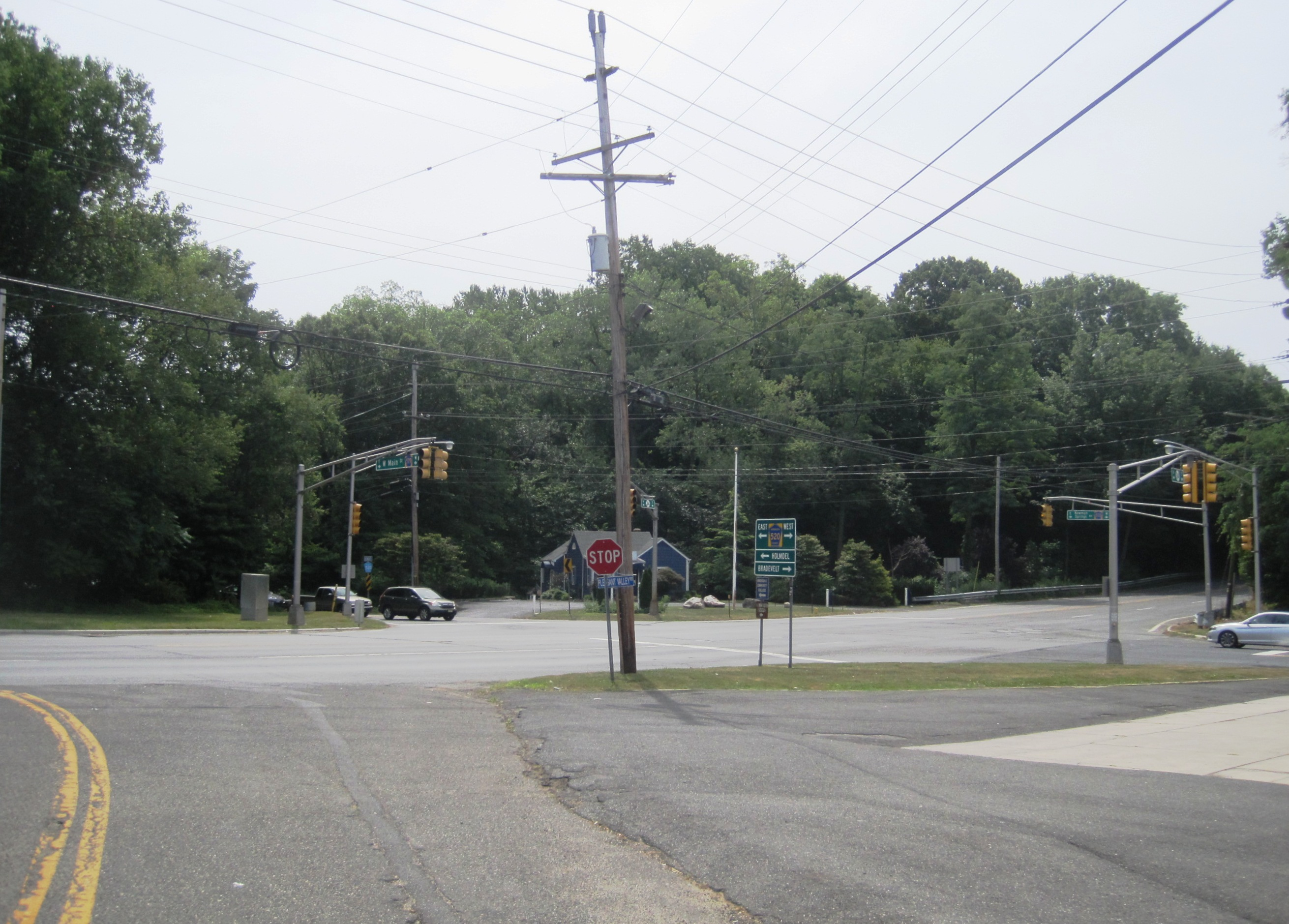 Photo of Pleasant Valley Crossroads, New Jersey, an unincorporated community within Holmdel Township and Marlboro Township. Photo taken at the intersection of Pleasant Valley Road and New Jersey Route 34; the signalized intersection in the background is Route 34 and Newman Springs Road (County Route 520).